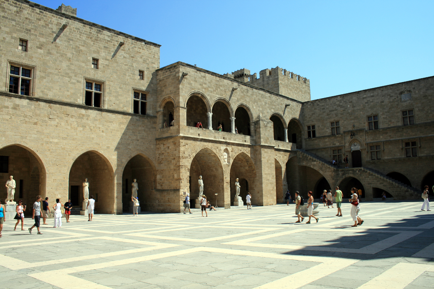 Palace of the Grand Master of the Knights of Rhodes (on Greece island Rhodes) Rodi Palazzo del Gran Maestro 1937 - 1940 Reconstruction Architect Vittorio Mesturino